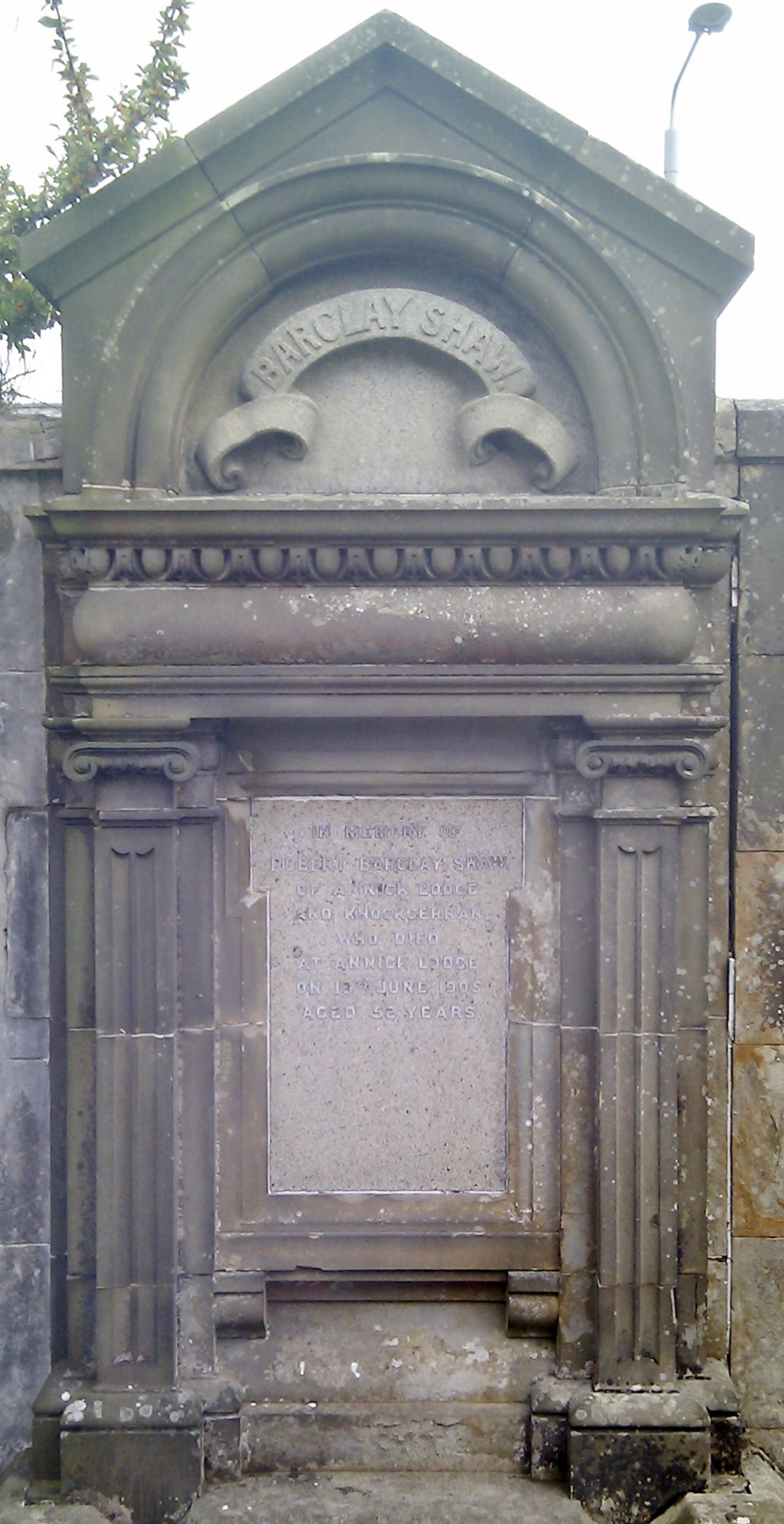 Gravestone of Robert Barclay Shaw of Annick Lodge, Dreghorn, Ayrshire.